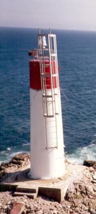 A modern unmanned lighthouse on Saint Paul Island, Nova Scotia.